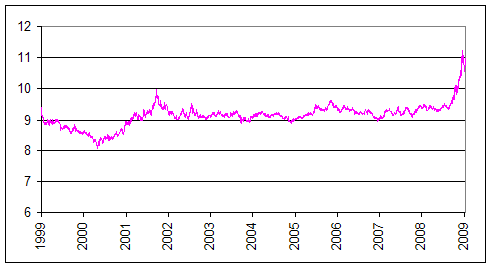 Exchange rate SEK against EUR.